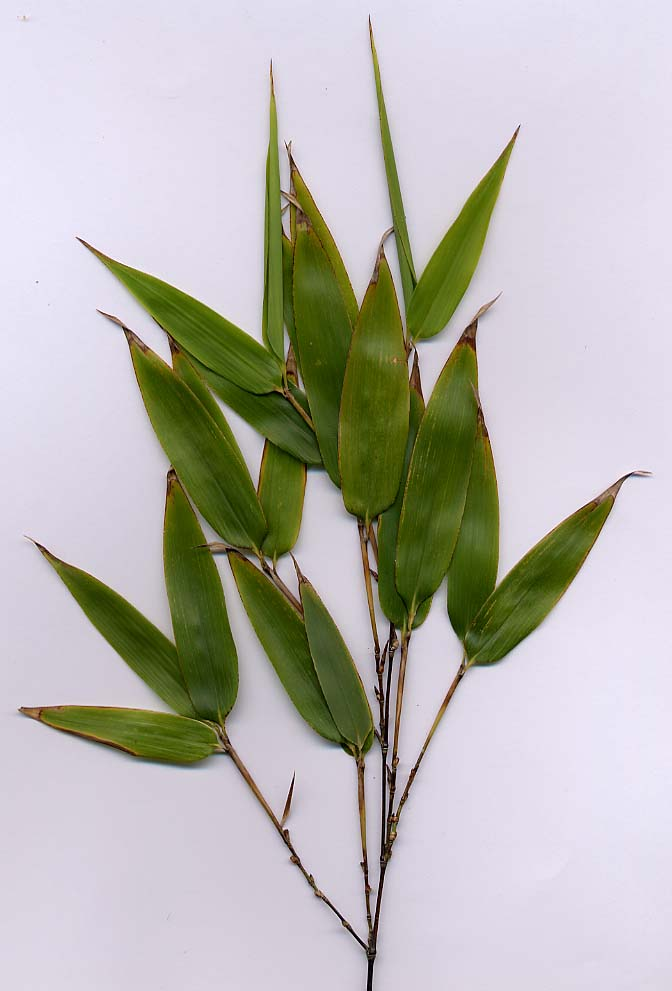 Probably Phyllostachys nigraBamboo foliage - photo MPF